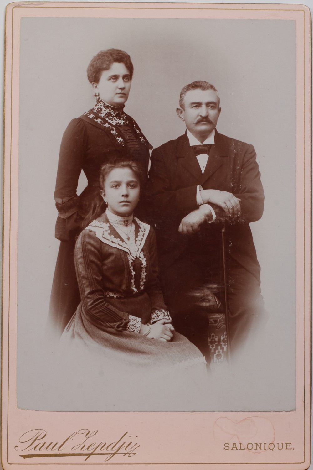 Dimitar Shavkulov and his wife Leopoldina and their daughter Olga, Thessaloniki 1900.